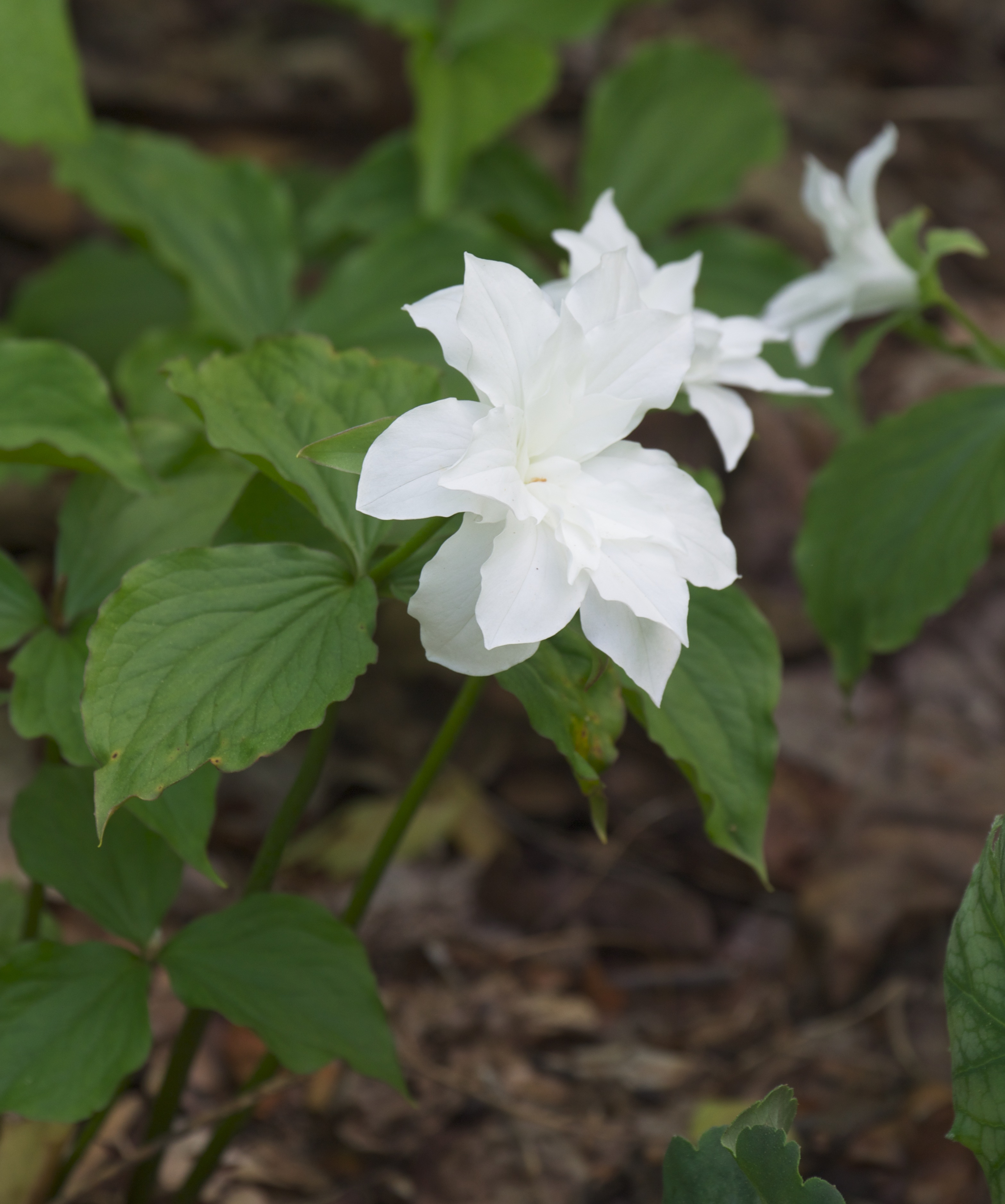 White, flowering trillium grandiflorum 'Pamela Copeland'